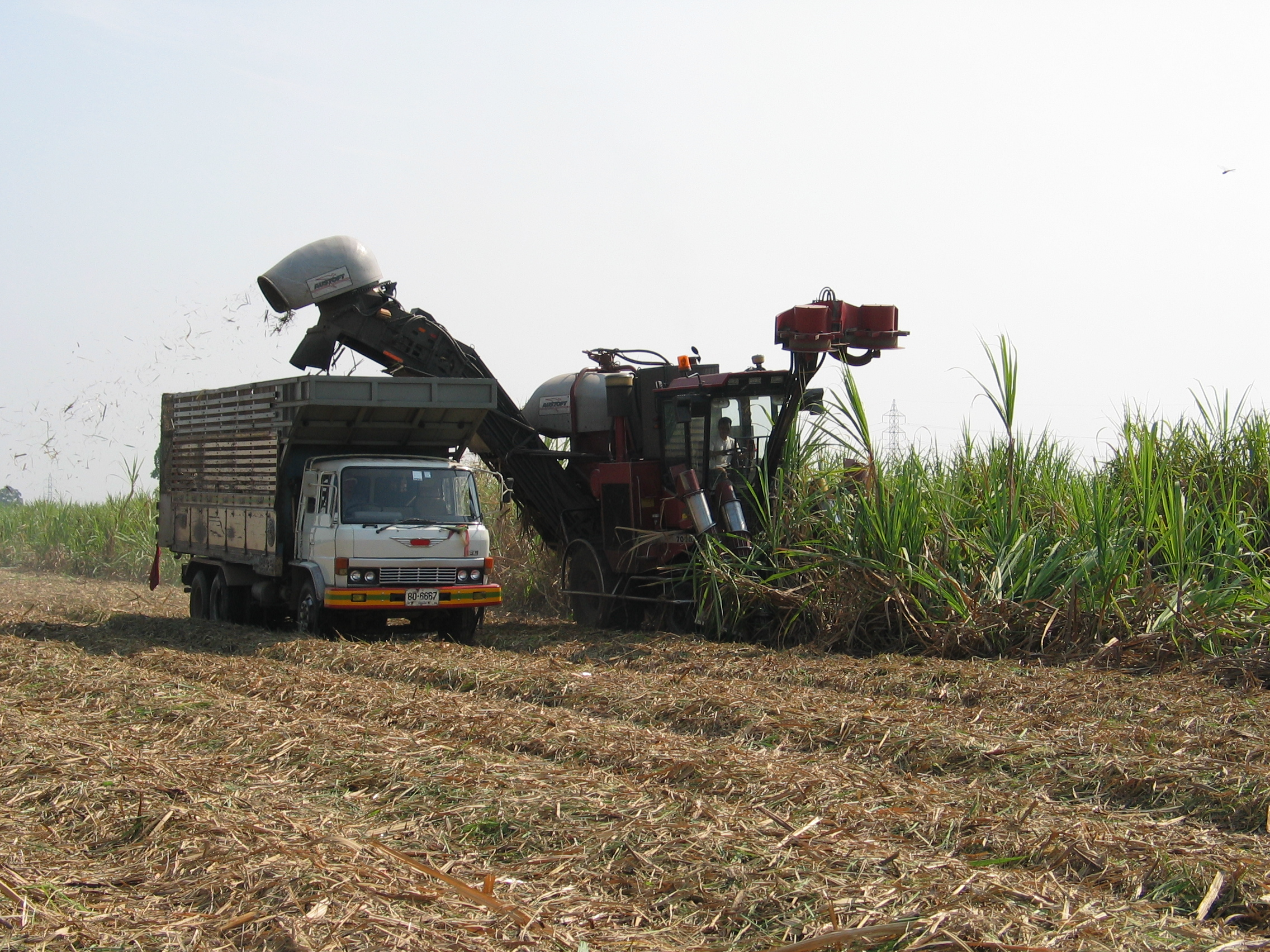 An Austoft cane harvester at work in Thailand